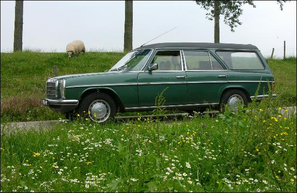 a mercedes-benz w115 220D ima kombi